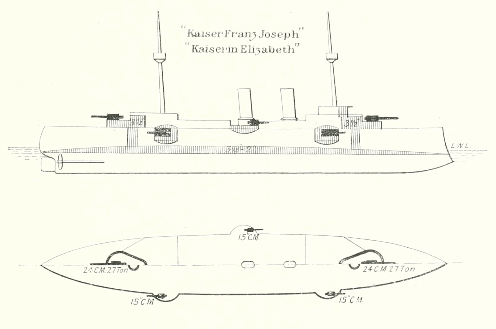 Sketch of the Austro-Hungarian protected cruiser Kaiserin Elisabeth.